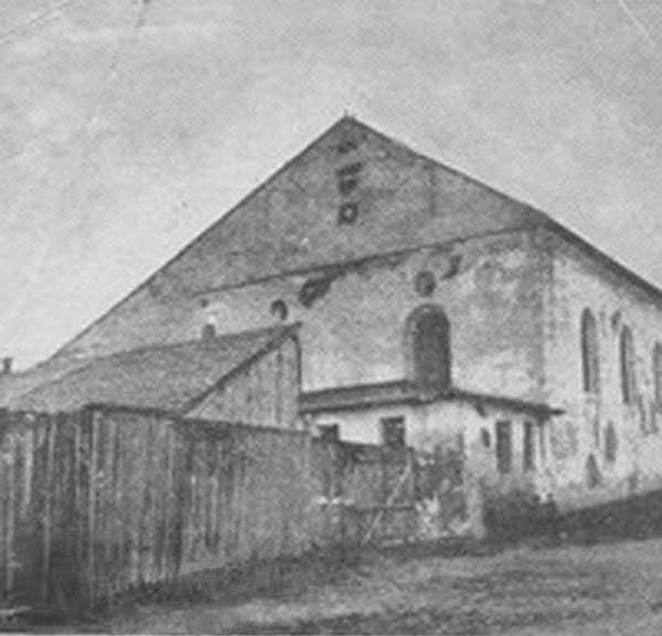 The synagogue in Opatów, Poland, located near the Main Square, erected in mid 17th century and destroyed by the Nazis in World War II.